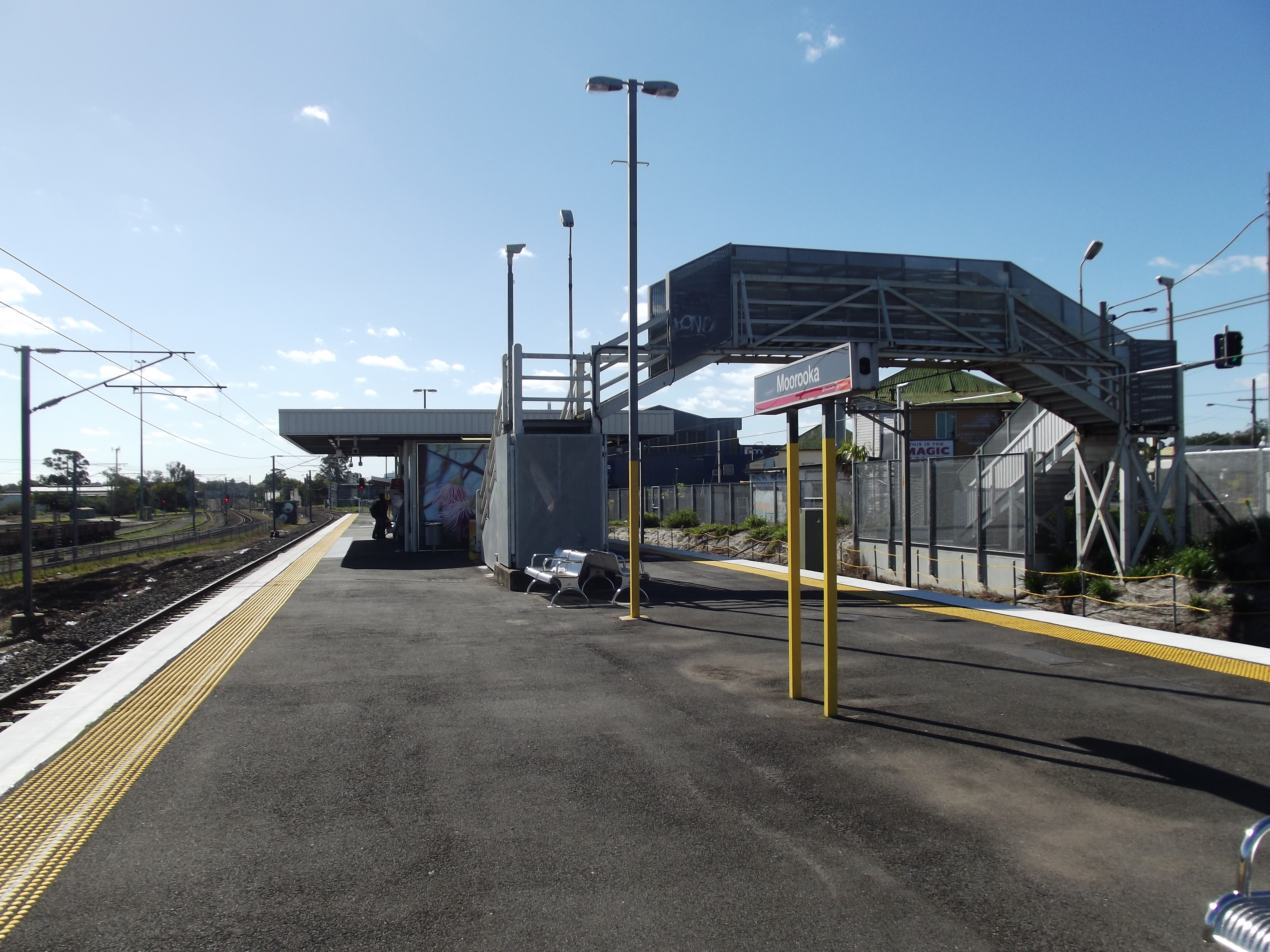 A photo of the Moorooka railway station, operated by TransLink, located in Brisbane, Queensland.